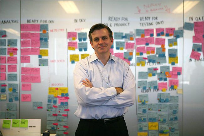 Kevin Sheekey, Global Head of Communications, Government Relations, and Marketing for Bloomberg L.P.